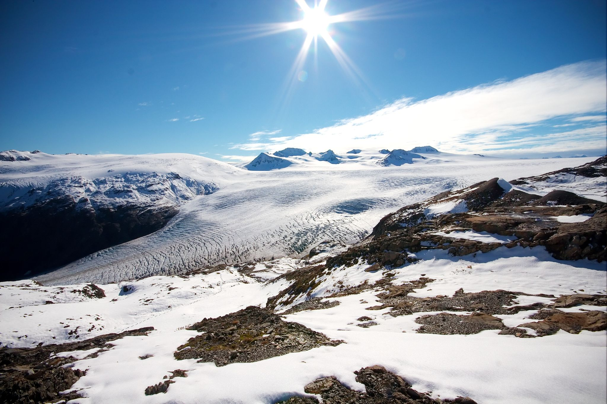 My favorite shot of the whole trip. I was worried about the sun throwing off the metering/exposure, but it turned out great. I wish I had a polarizer for some of the other pictures, but this one turned out great. The ice field just stretches forever, and the cracks in the ice, and the perfect sky, it was a great day to be up there.